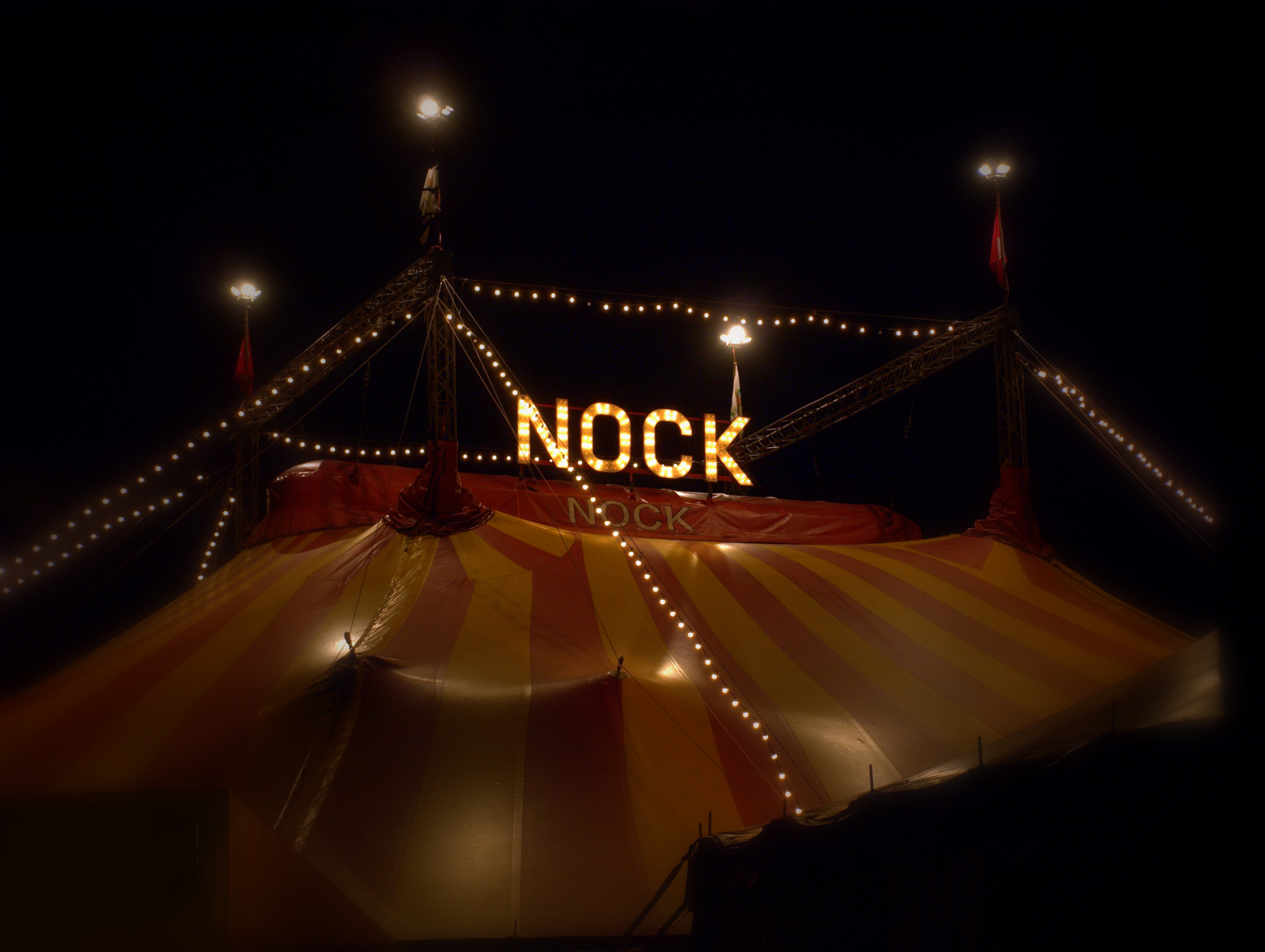 Somehow even though circuses have lost some of their appeal the big top still seems to be an object of beauty to me.